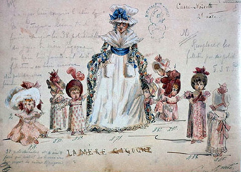 circa 1892